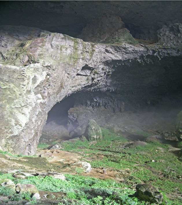 Mawangdong mouth